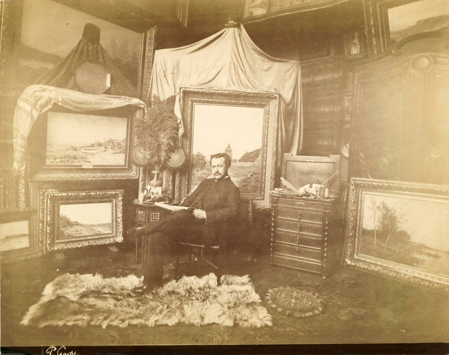 Peter Alfred Gross in his Paris studio